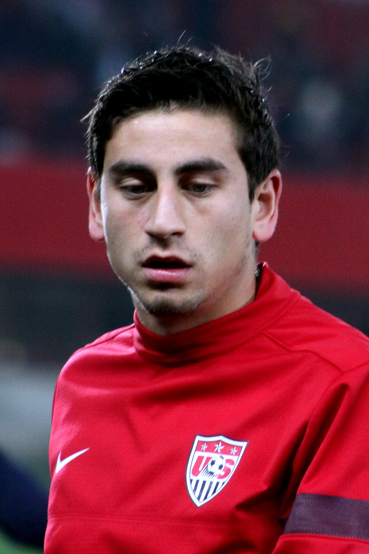 Friendly-match Austria vs. USA (1:0) in the Ernst-Happel-Stadion in Vienna at 2013-03-22. – The photo shows from left to right Alejandro Bedoya.